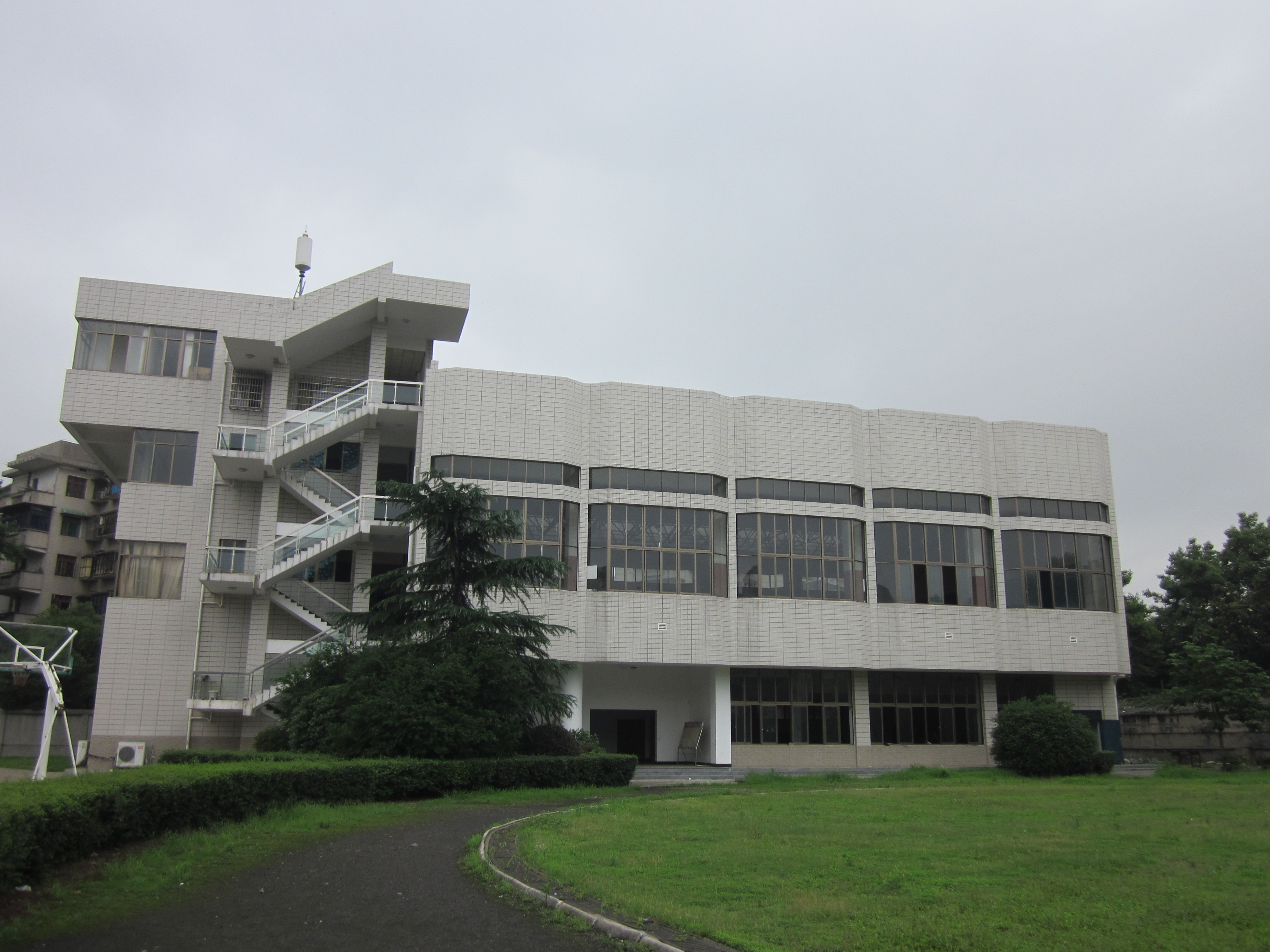 Teaching building of Changsha Education College.